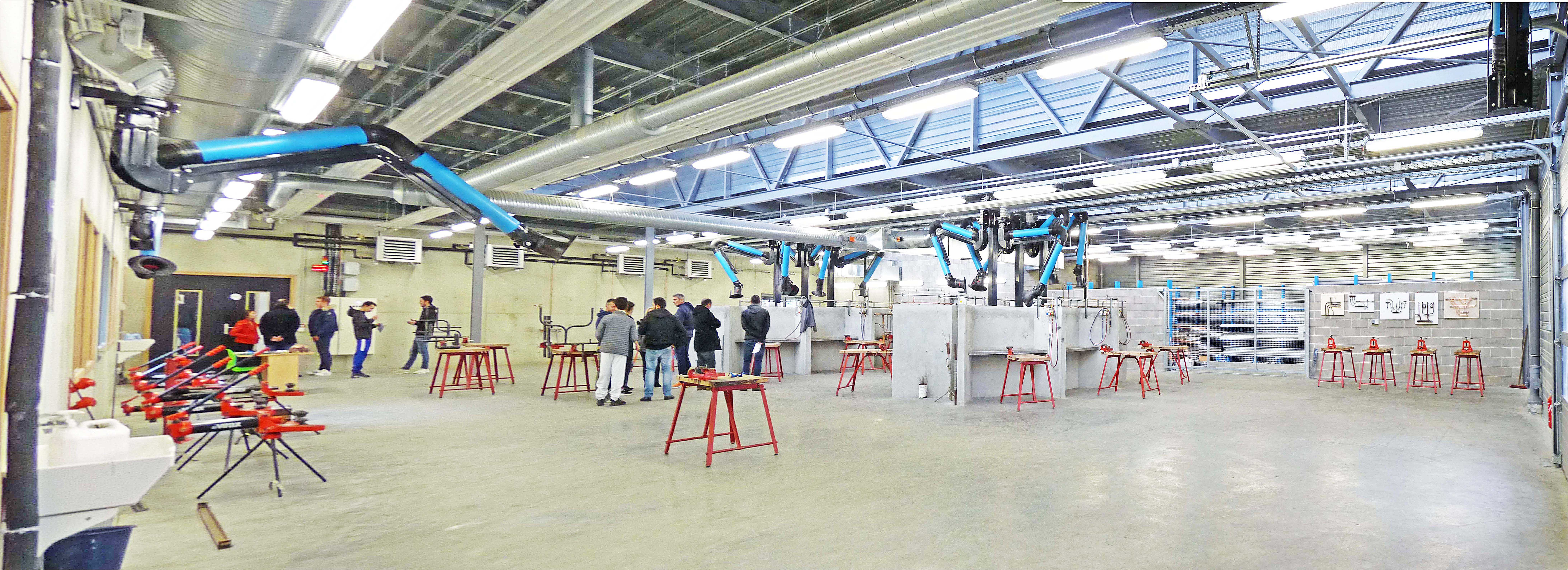 Modern plumbing workshop in a aprenticeship technical school.